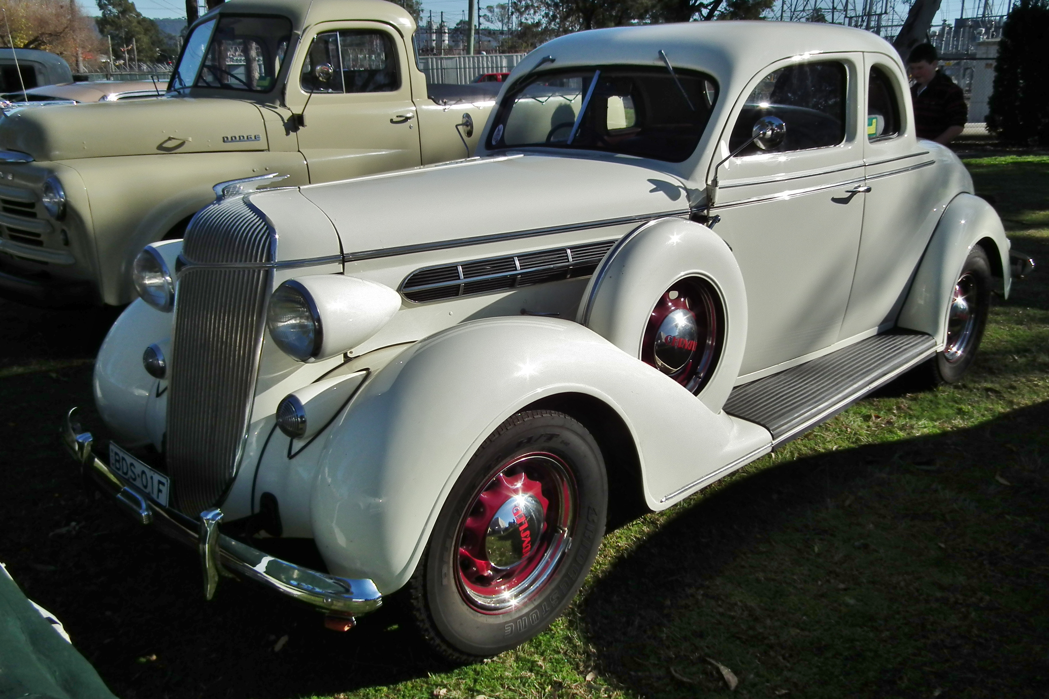 1936 Chrysler C7 Airstream coupe. Taken in the carpark at the 2011 Sydney Antique & Classic Truck Show, held at the Museum of Fire in Penrith, NSW.